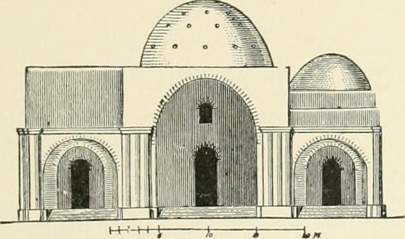 Identifier: historyofallnati02wrig Title: A history of all nations from the earliest times; being a universal historical library Year: 1905 (1900s) Authors: Wright, John Henry, 1852-1908 Subjects: World history Publisher: [Philadelphia, New York : Lea Brothers & company Text Appearing Before Image: Fig. (j6. — Portal of thePalace of Firuzabad. A ED A Silin S EMPIRE. 209 is proved by fragments at Warka; this they transmitted to theArabs, who brought it to Egypt and Spain. The use of majolicacame to Italy by another route, from Pitzunda in Abkhasia andErivan to Pisa, where it was first employed in the thirteenth cen-tury in the church of Saint Cecilia. Likewise the primitive Chal-daic decoration of walls with sunken panels was evolved into anarrangement of pilasters spanned by an arch. This motive ismet with again in the Byzantine church at Ani in Armenia as wellas in Firuzabad. Ardashir, the King of Kings, had the unprecedented good for-tune of subjugating almost all the Parthian countries. Only in afew regions of difficult approach Parthian famihes still maintainedtheir supremacy, as, for instance, the Aspahapet in Tabaristan,whose sway was destined to outhve that of the Sassanians. King Text Appearing After Image: '